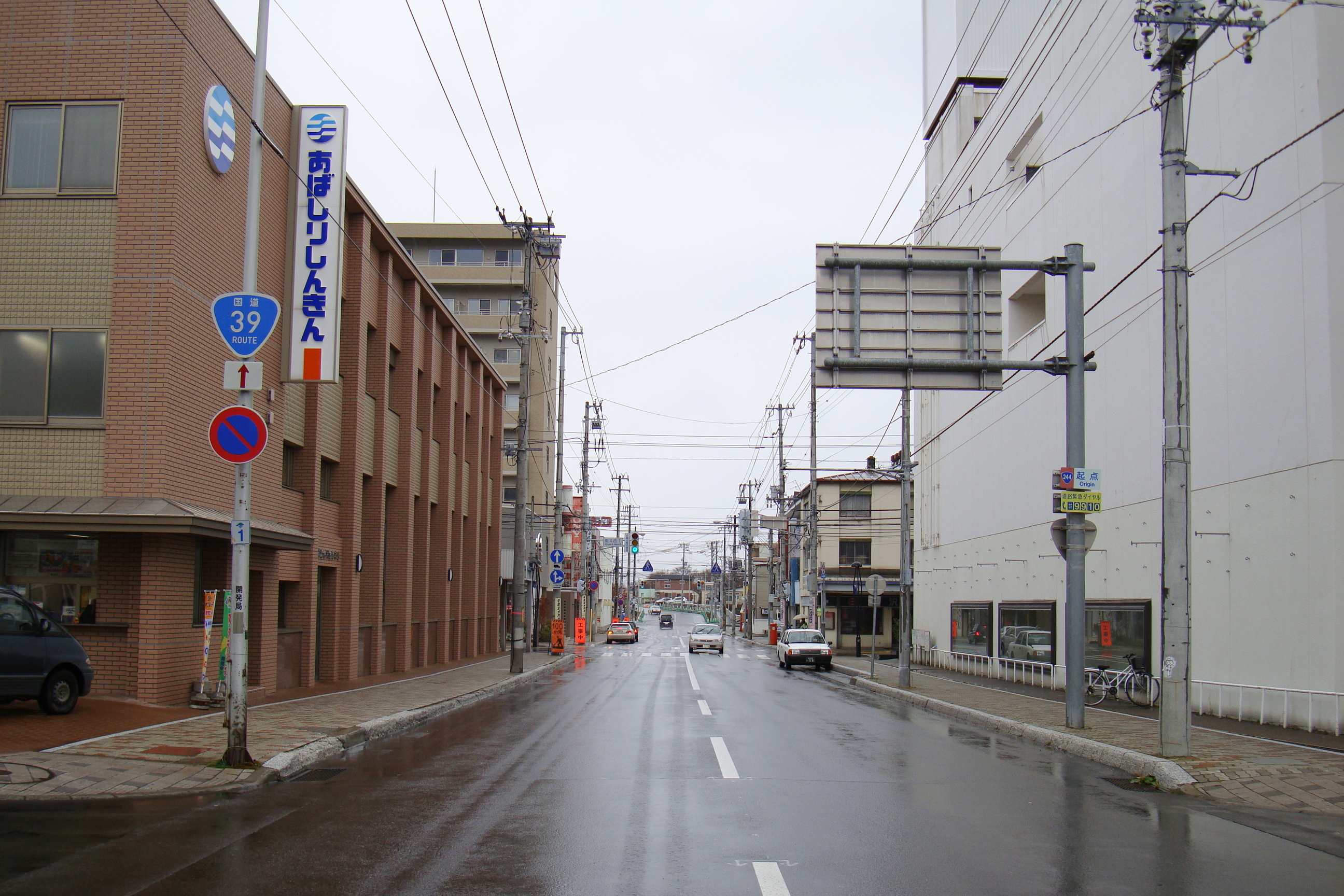 Japan National Road Route 39 terminus, Route 244 origin.